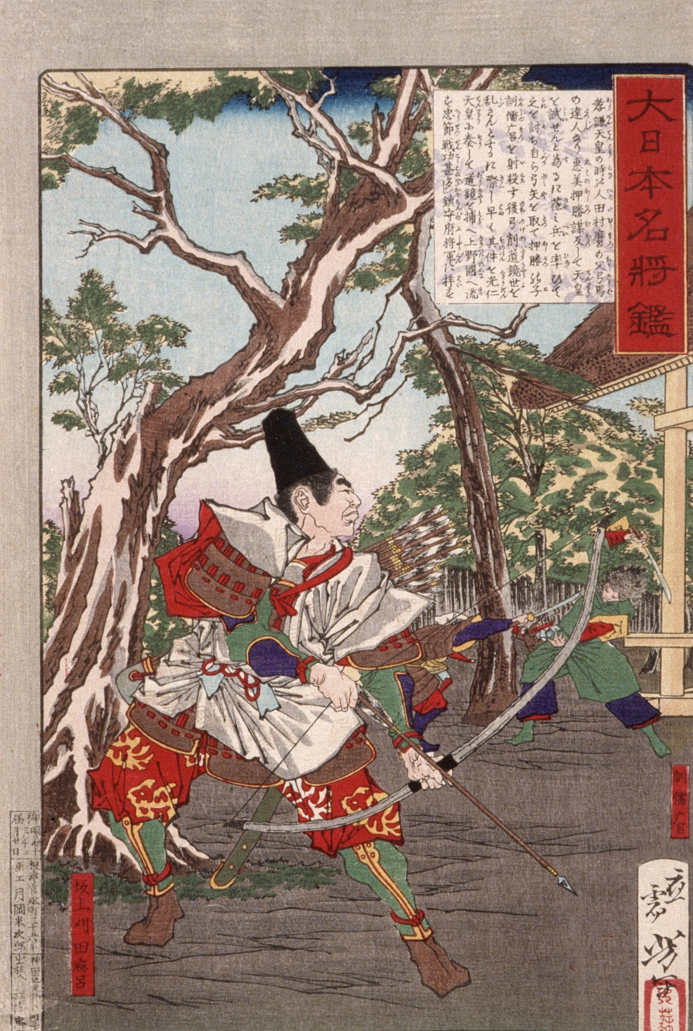 Japan, 2/1880 Series: A Mirror of Great Warriors of Japan Prints; woodcuts Color woodblock print Herbert R. Cole Collection (M.84.31.256) Japanese Art 弓の名手、坂上苅田麻呂が藤原仲麻呂（恵美押勝）の乱にて仲麻呂の子、訓儒麻呂を射ようとする場面